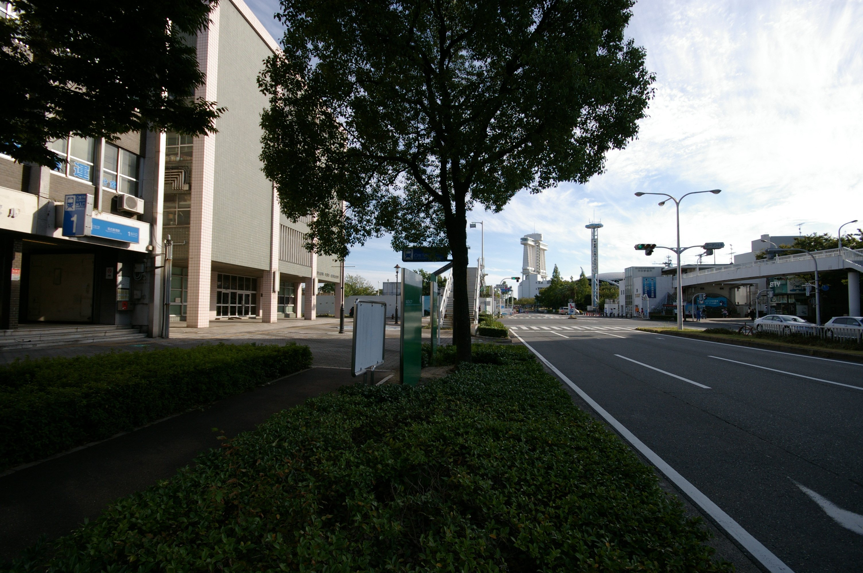 Nagoya Subway Nagoyakou Subway. The port observation building is in the background.